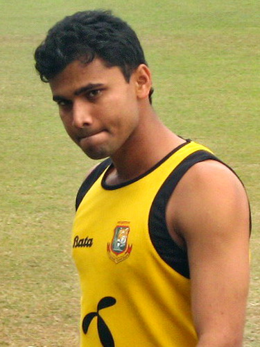 Mashrafe Mortaza training, 22 February, 2009, Dhaka SBNS